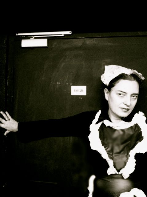 Anne Pigalle, 2012